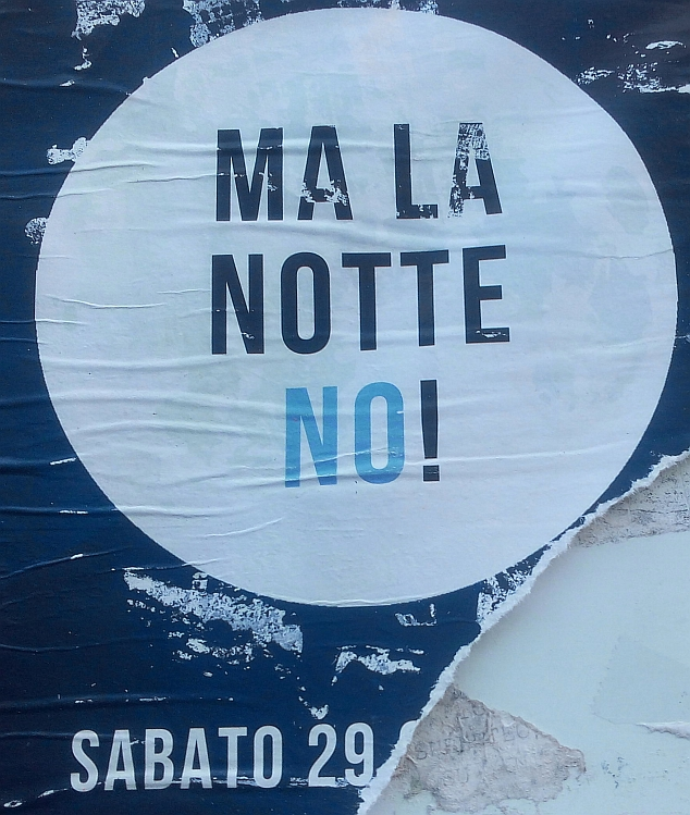 Ma la notte no! (literally: Not by night!) - detail of a political poster, Turin (Itaky), November 2016